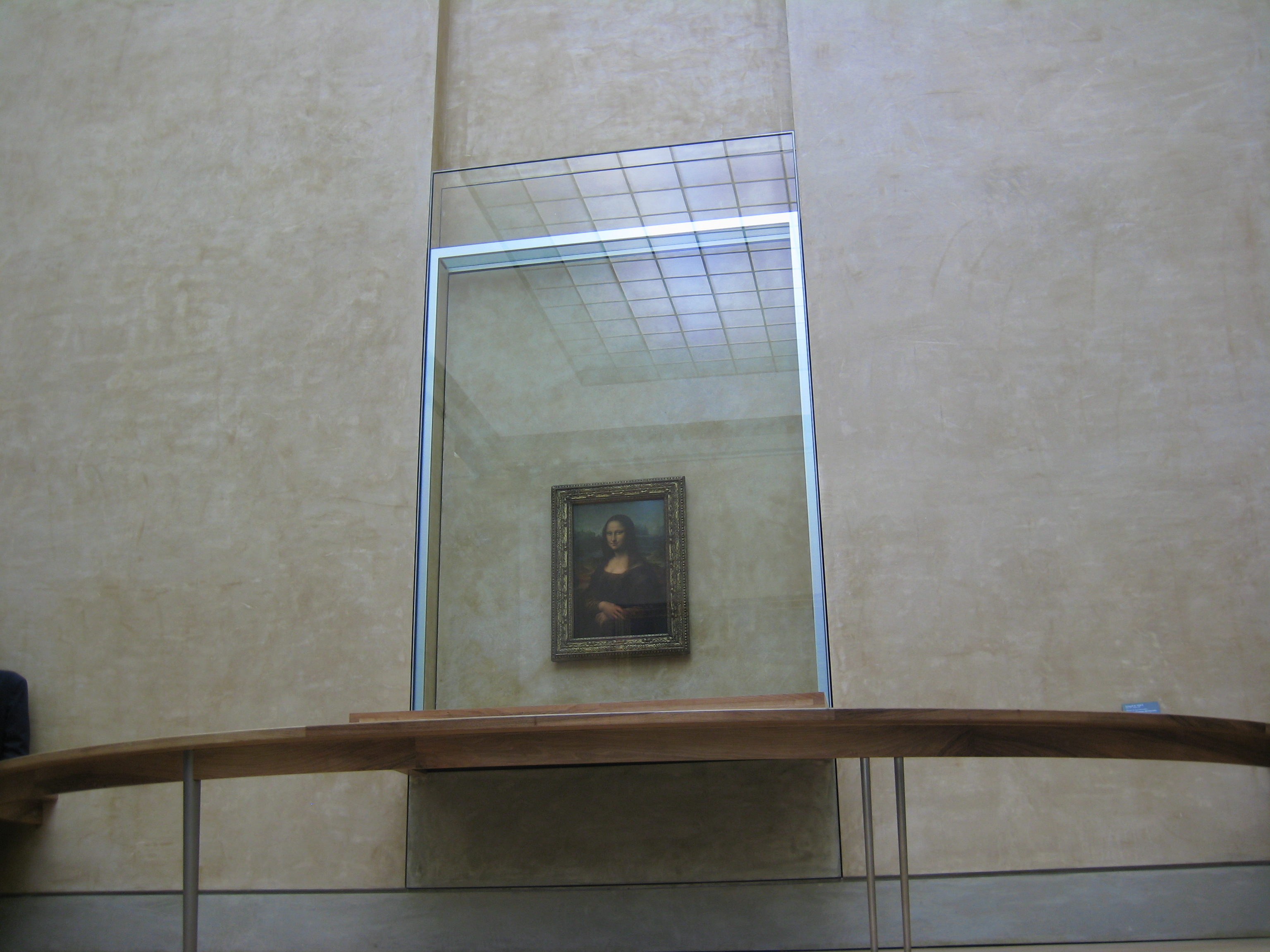 Mona Lisa protection shield